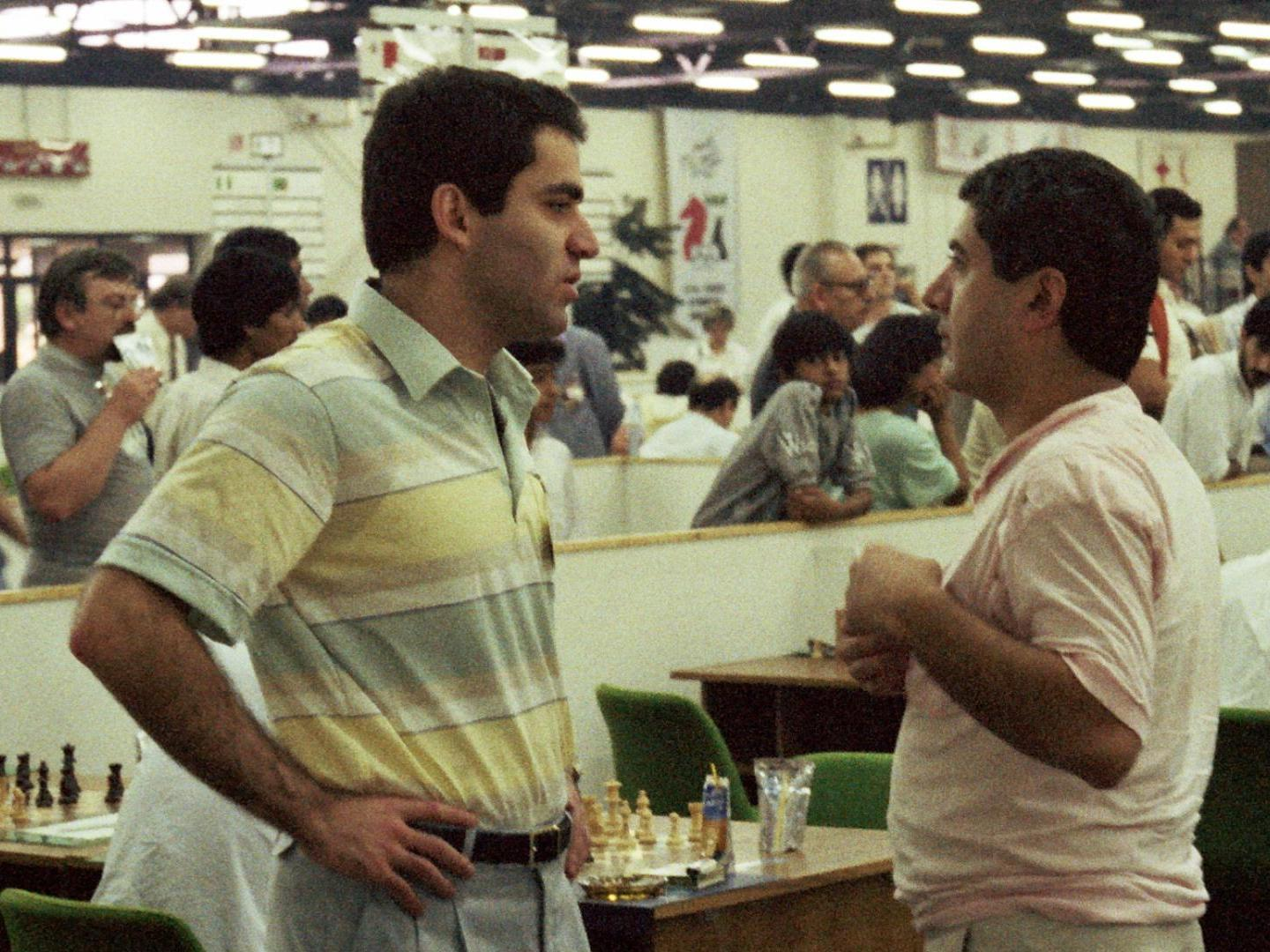 Chess Olympiad 1986 (Garry Kasparov, Rafael Vaganian, debating in the tournament hall), Photographer Gerhard Hund.